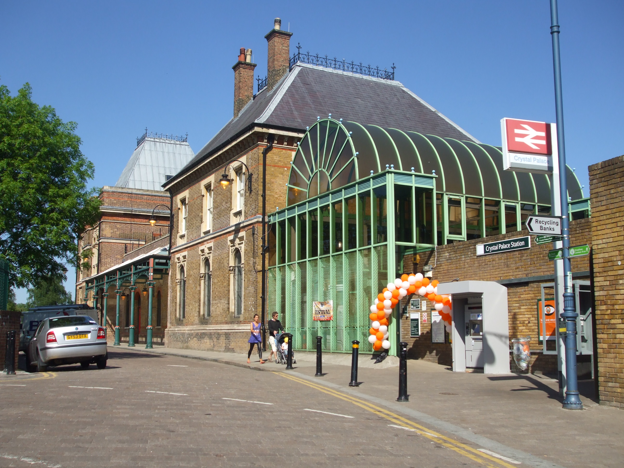 Crystal Palace station building on the first day of East London Line services at the station.